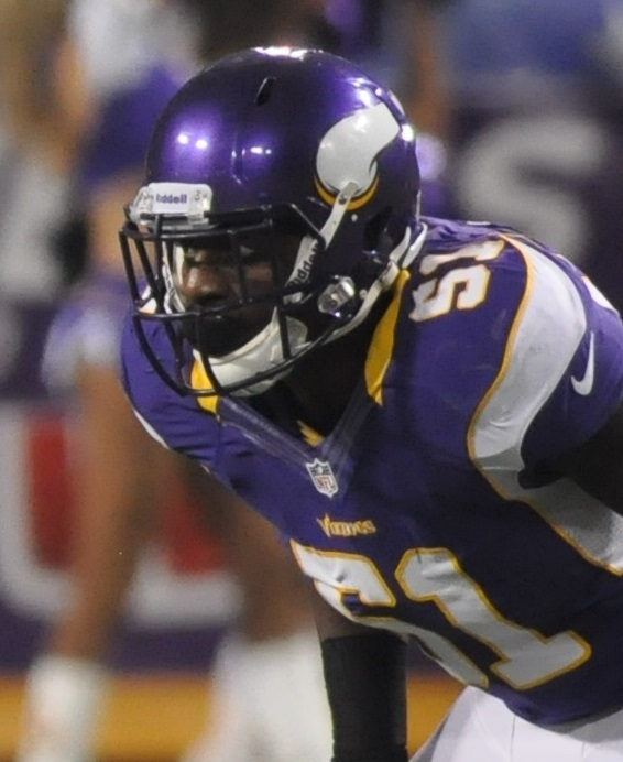 Blair Walsh of the Minnesota Vikings prepares for a kickoff while linebacker Larry Dean watches.